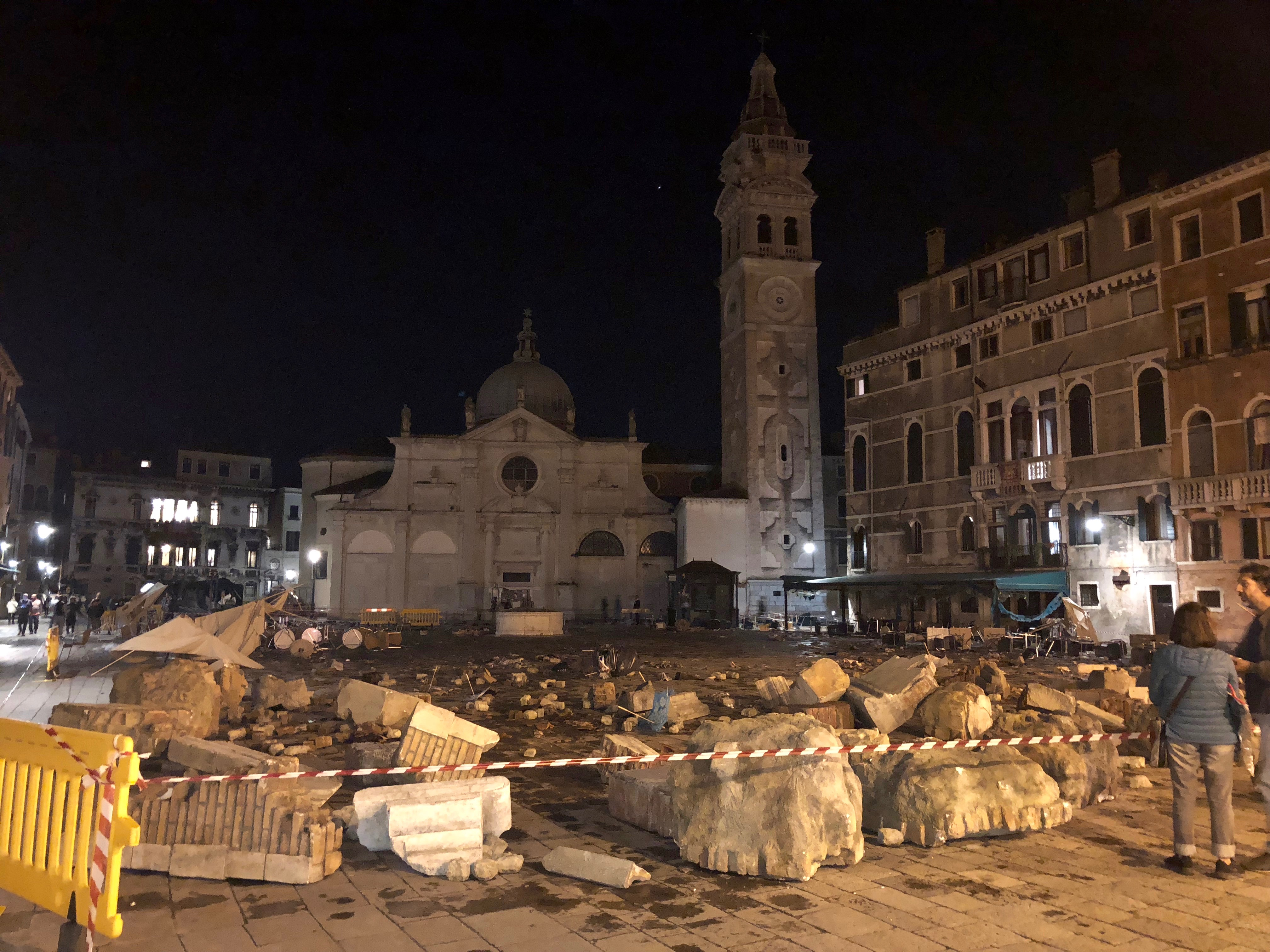 The set of the movie "Spider-Man: Far From Home" in Venice in October 2018